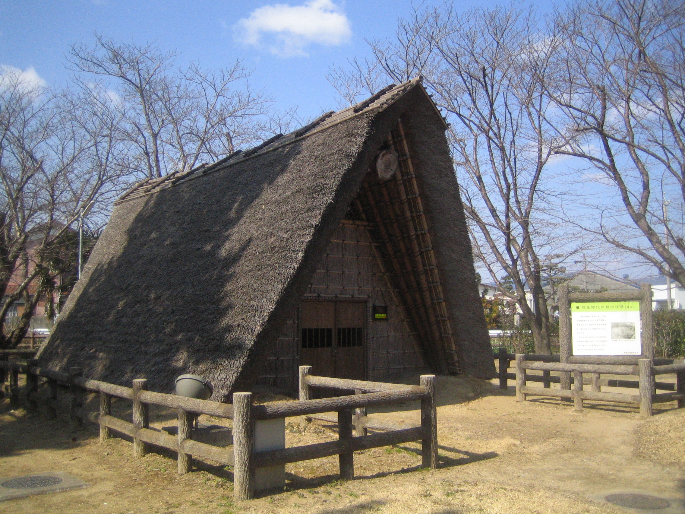 Urigo Ruins (瓜郷遺跡 Urigō Iseki), located at Urigo, Toyohashi, Aichi, Japan